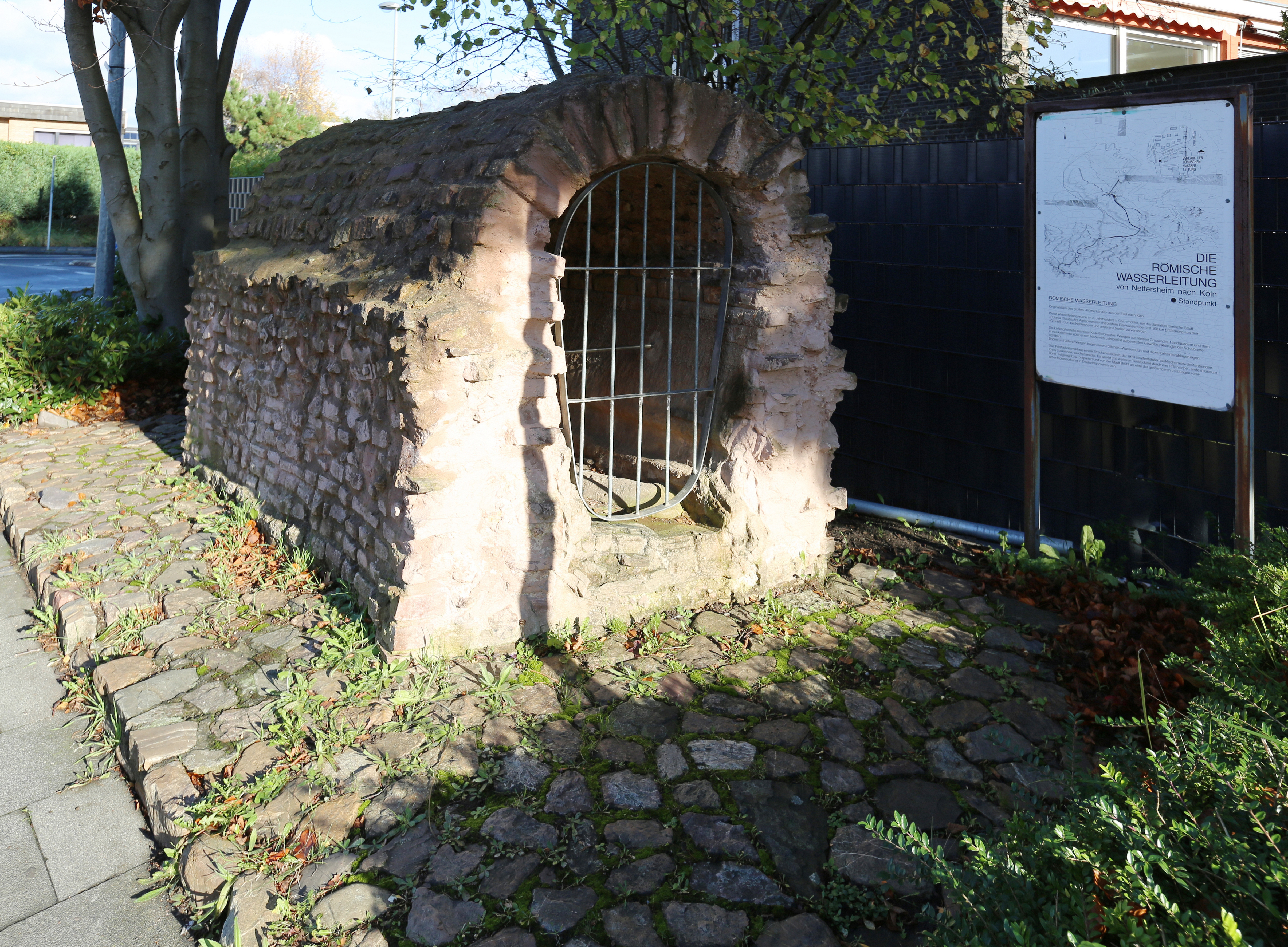 Part of Eifel aqueduct, located near Mechernich-Breitenbenden, Germany